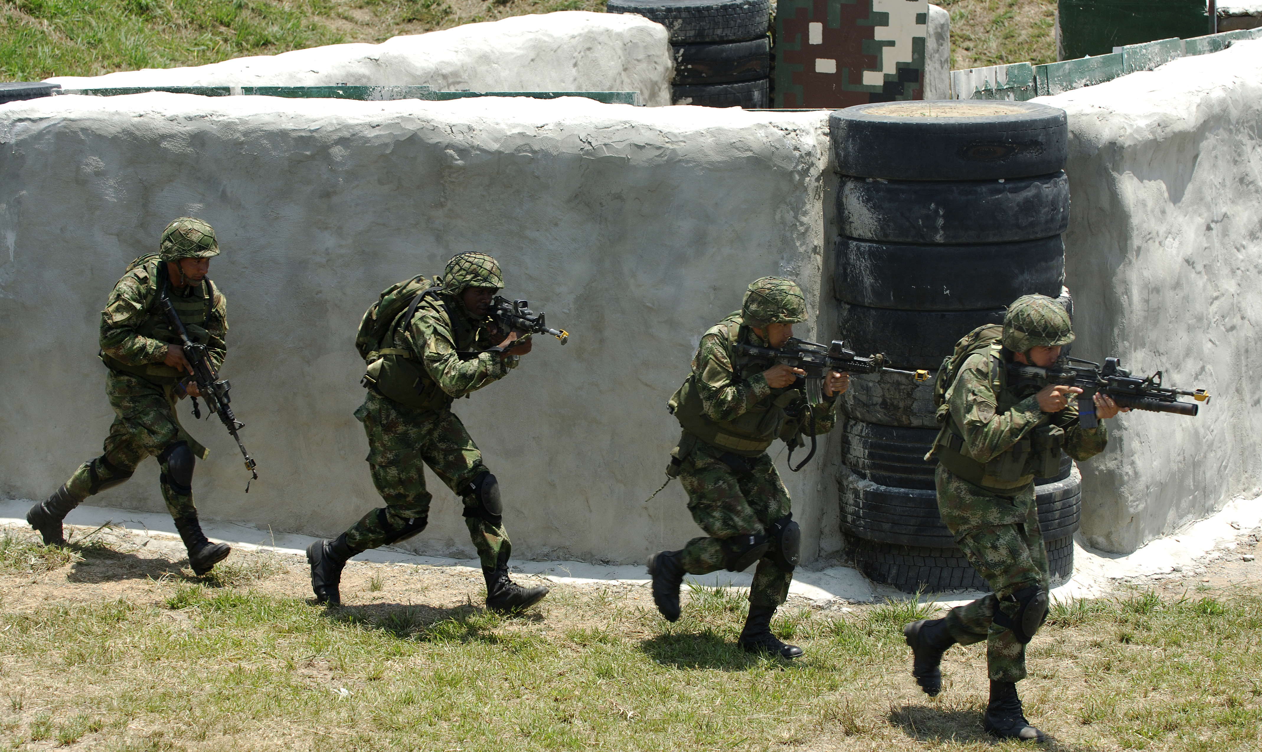 Colombian army special forces insert into Tolemaida Air Base, Colombia, during a technical demonstration for Secretary of Defense Robert M. Gates and Colombian Minister of Defense Dr. Juan Manuel Santos during the secretary's trip to Latin America Oct. 3, 2007. DoD photo by Tech Sgt. Jerry Morrison, U.S. Air Force. (Released)